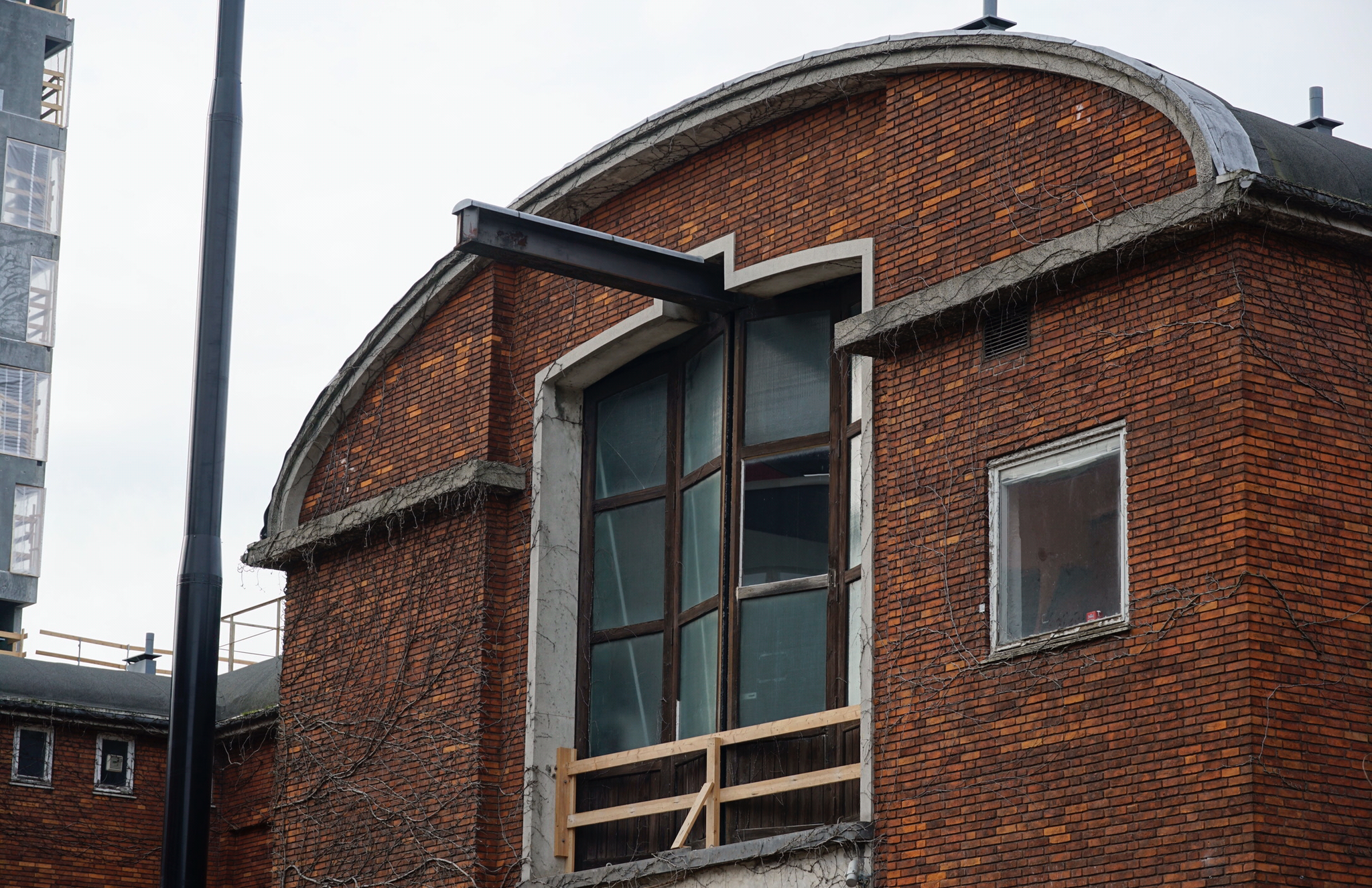 Kran på Halmlageret